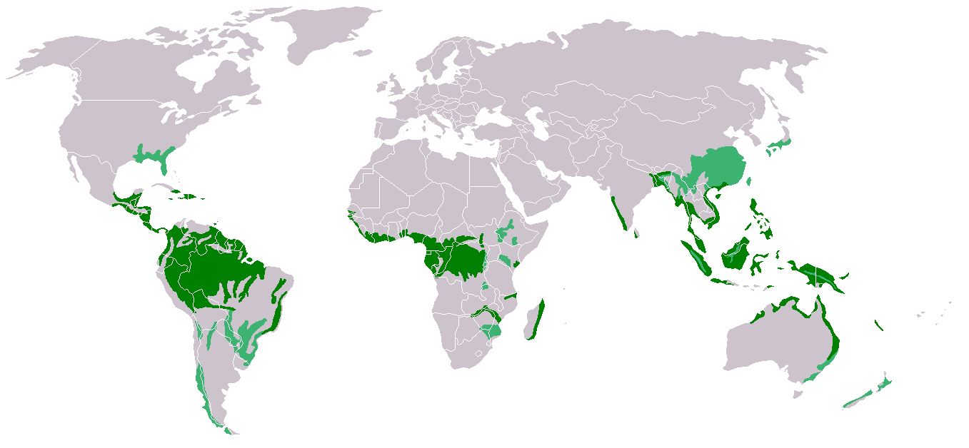 Darker: Tropical rainforest Lighter: Subtropical rainforest